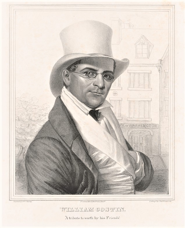 William Costin. "A tribute to worth by his friends" / painted by S.M. Charles ; lithogd. by Chas. Fenderich. Summary William Costin